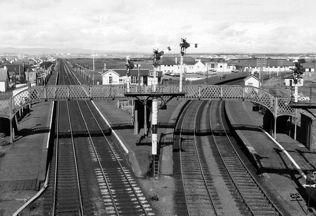 Barassie Station. View northward, towards Glasgow and (to right) Kilmarnock; Glasgow - Ayr - Stranraer main line, junction of branch from Kilmarnock.